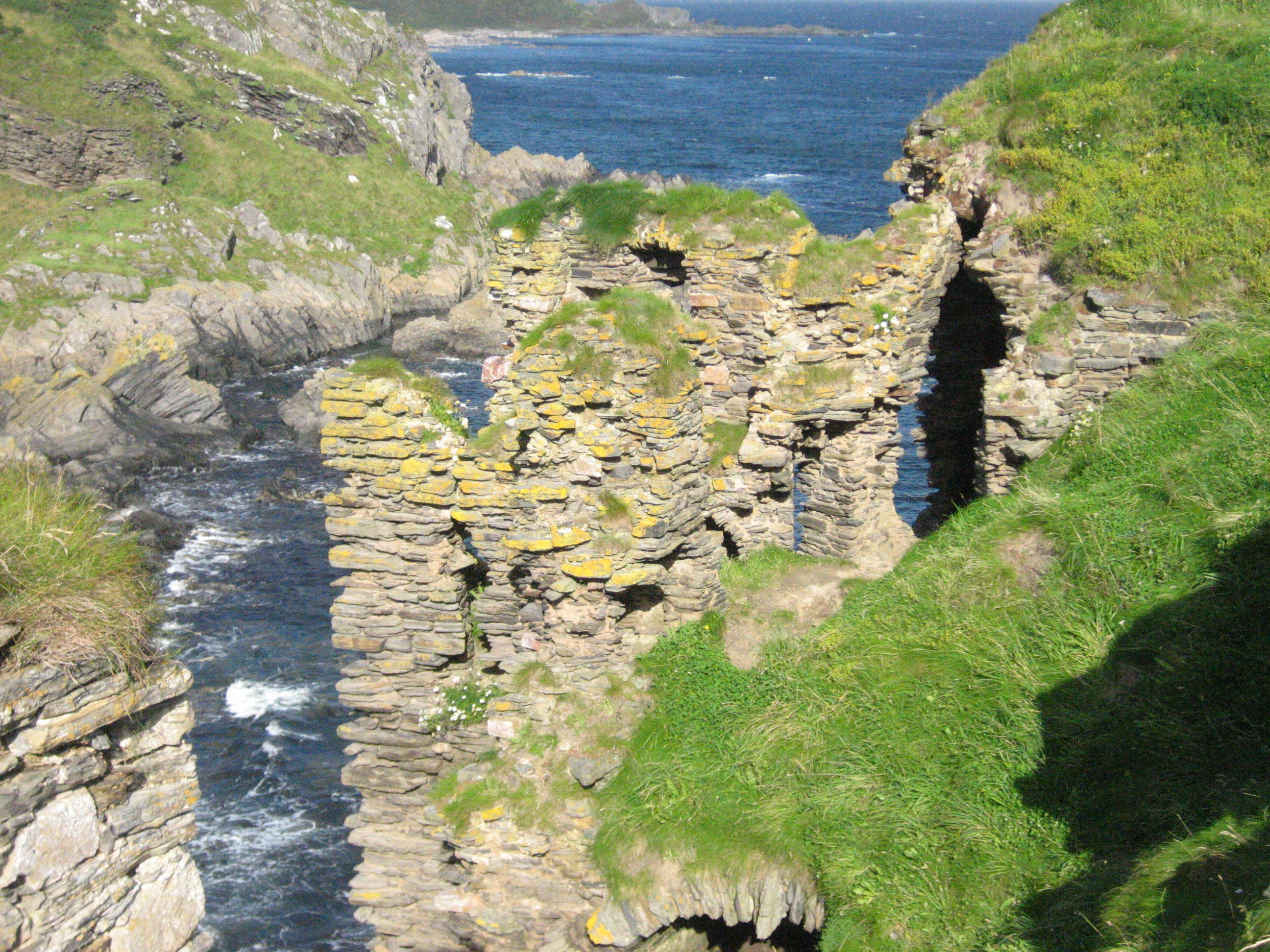 The ruins of Findlater Castler, Scotland